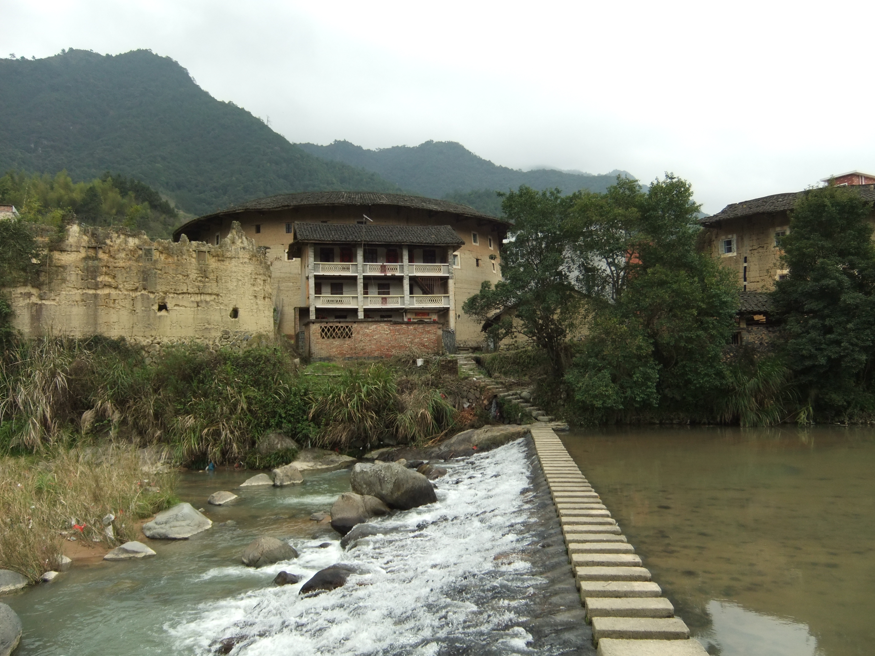 Around Xinnan Village (新南村, New South Village), Hukeng Town, as seen from Fujian Provincial Hwy 309 (S309). This is one of the tulou villages in the Nanxi Valley, located south of Yangduo Village (Xipiancun) and north of Xinnan Village (Xinnancun - New South Village). It is part of the "Tulou Great Wall" of the Nanxi Valley. The World-Heritage designated Yanxiang Lou is in the village.